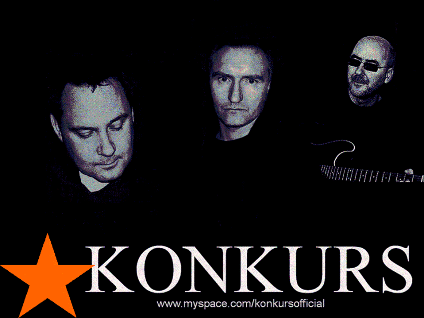 Photo of Swedish rock band Konkurs: Patrik Pallin, Matts Eriksson, Peter Holmberg